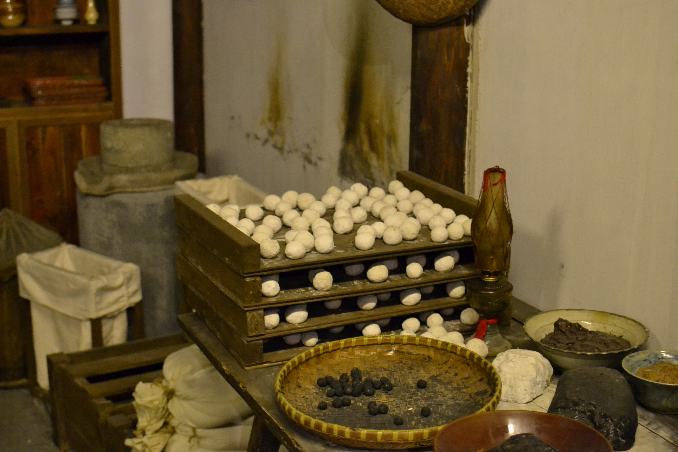 Tangyuan Production displayed in Ningbo Museum